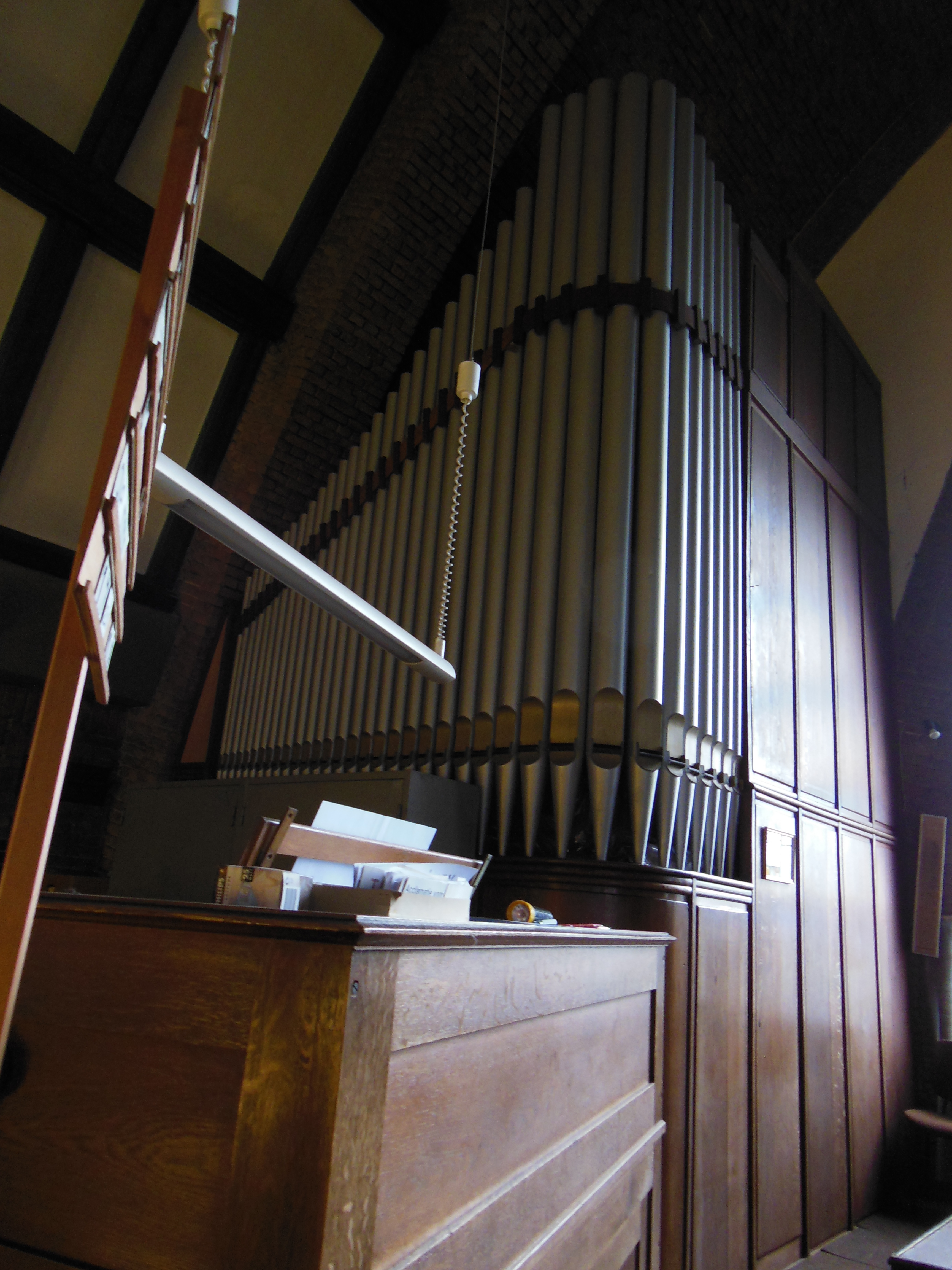 Saint Joseph church Leiden